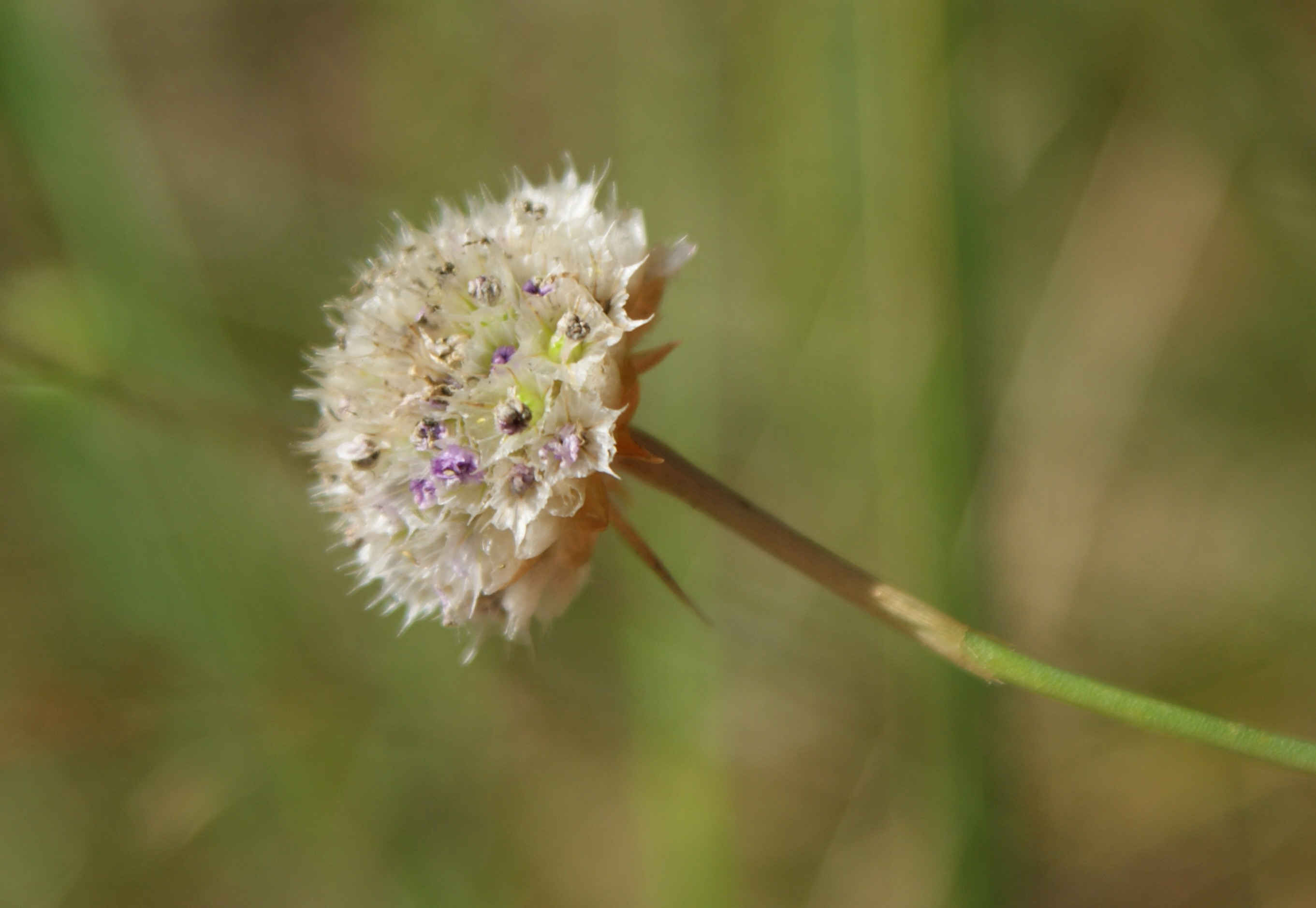 Armeria maritima subsp. elongata. Fructification